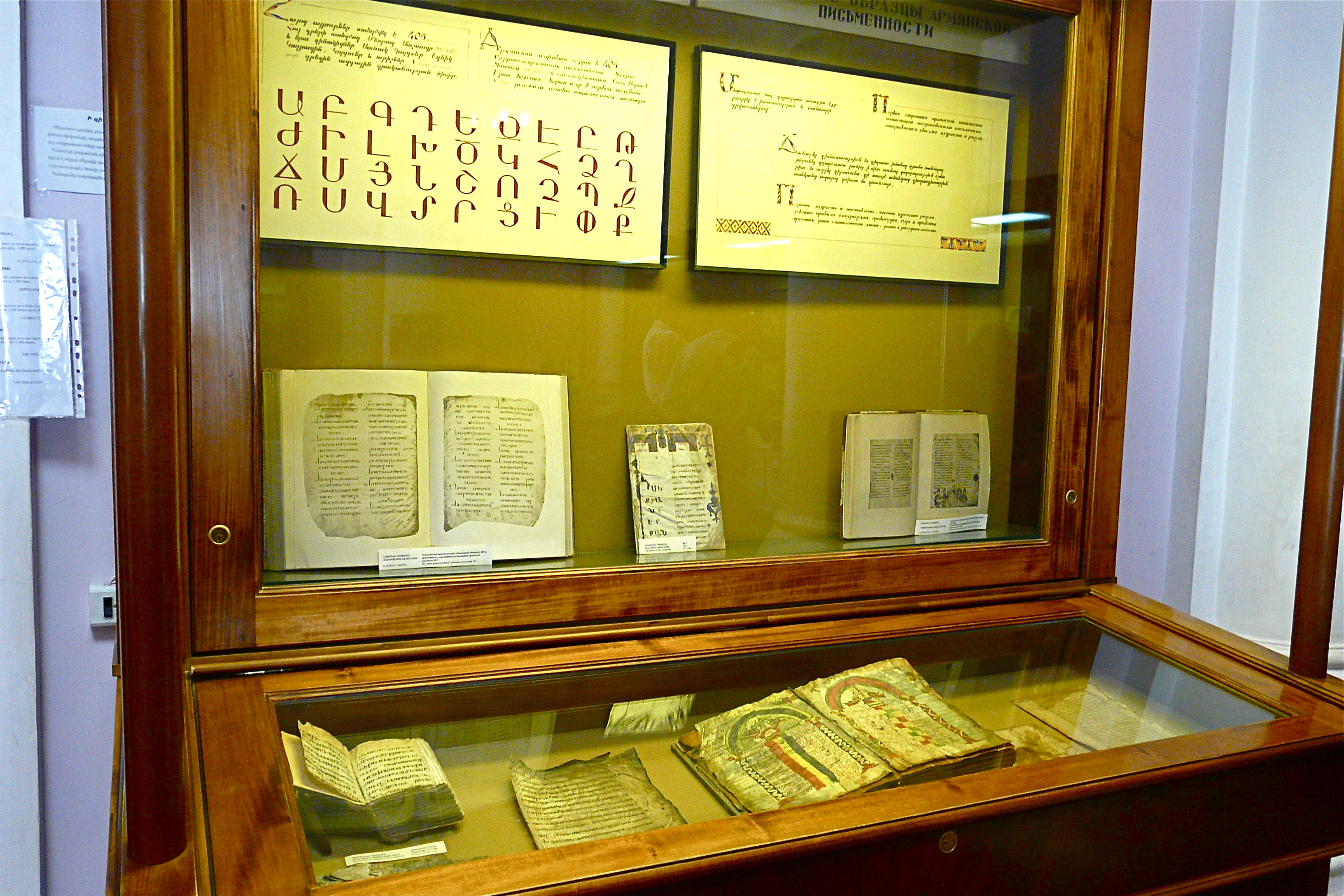 Presentation in the Matenadaran, Yerevan, Armenia.